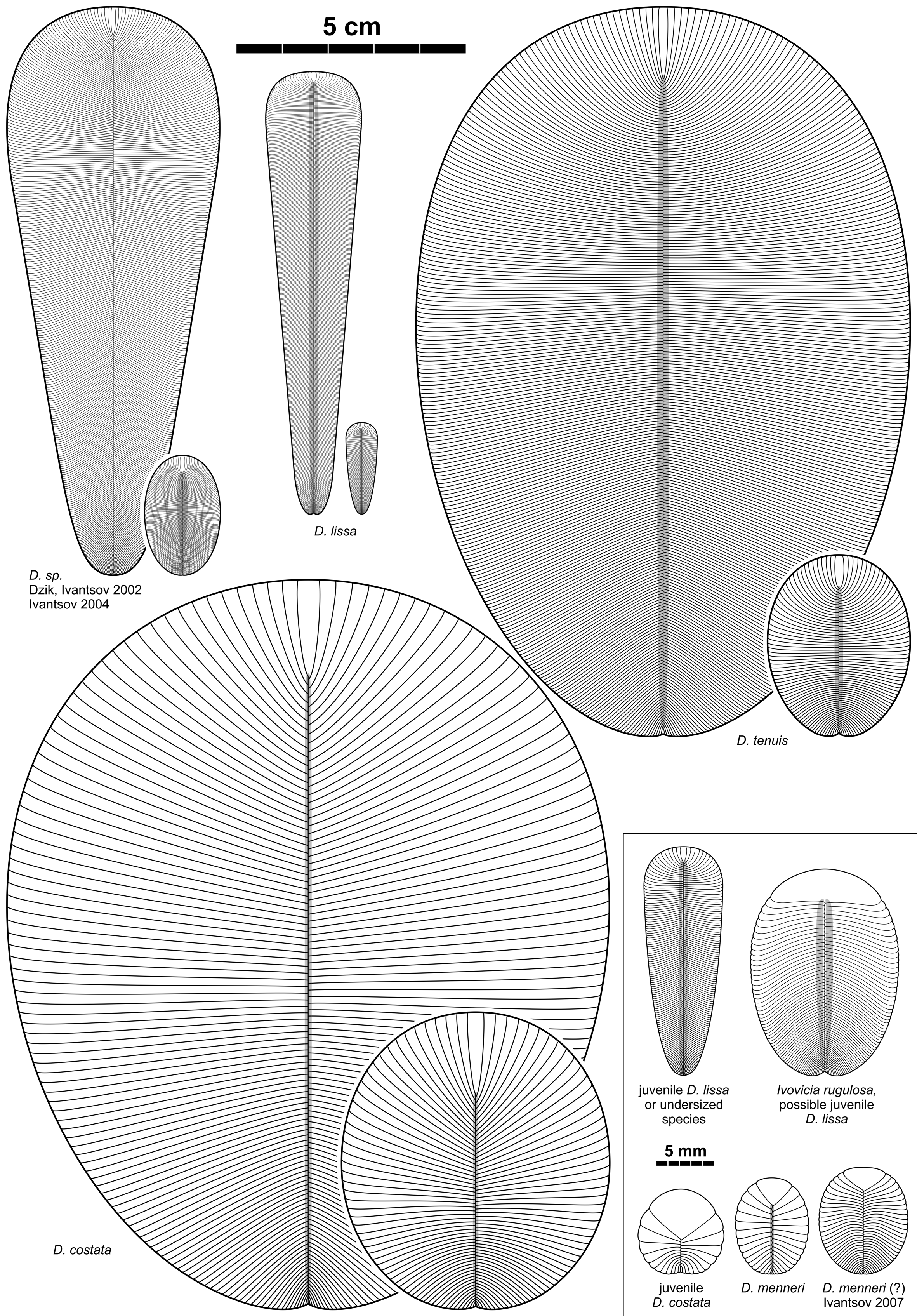 Schematic reconstructions of Dickinsonia costata, Dickinsonia lissa, Dickinsonia menneri, Dickinsonia tenuis and Dickinsonia sp and Ivovicia rugulosa